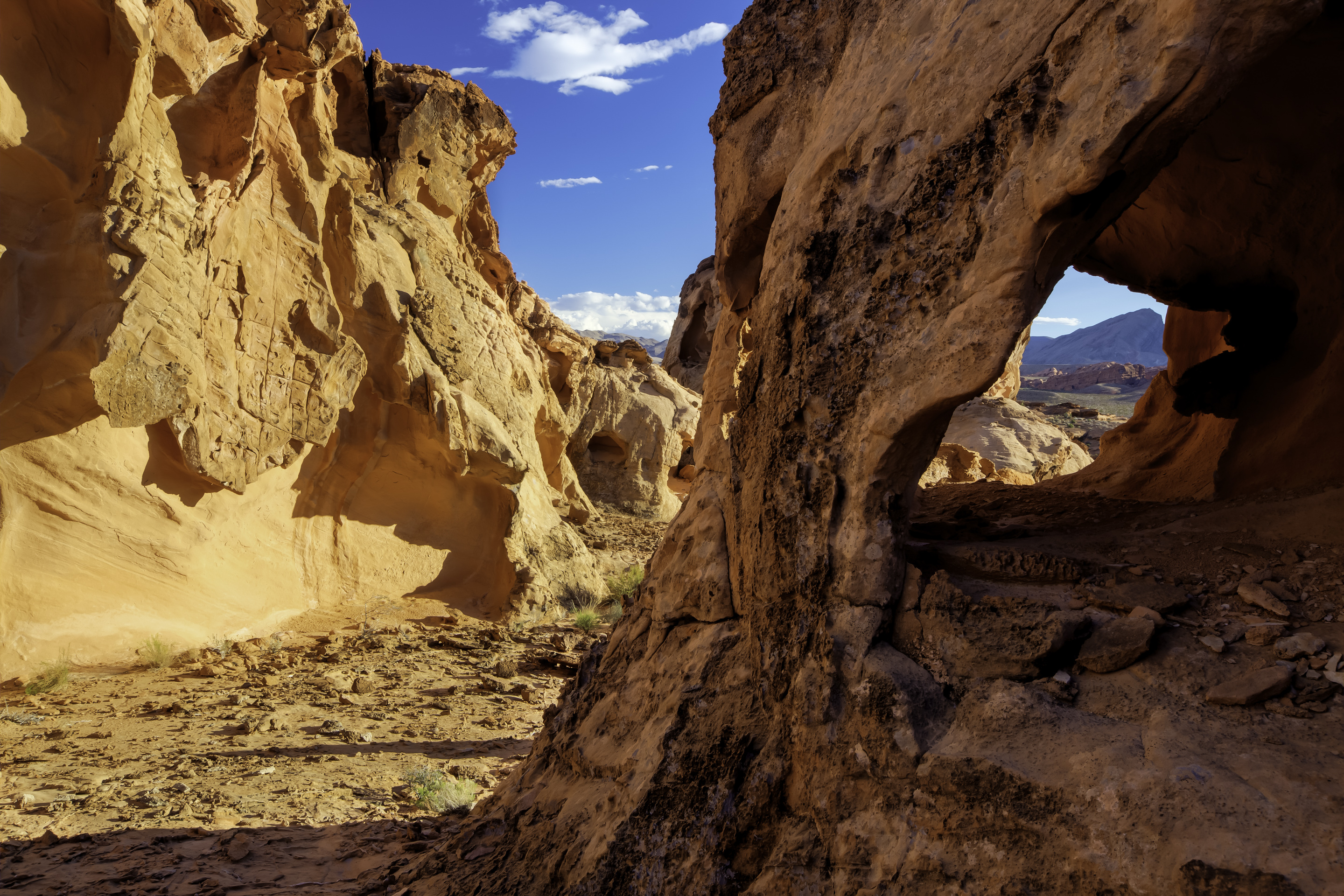 Photo of Gold Butte National Monument